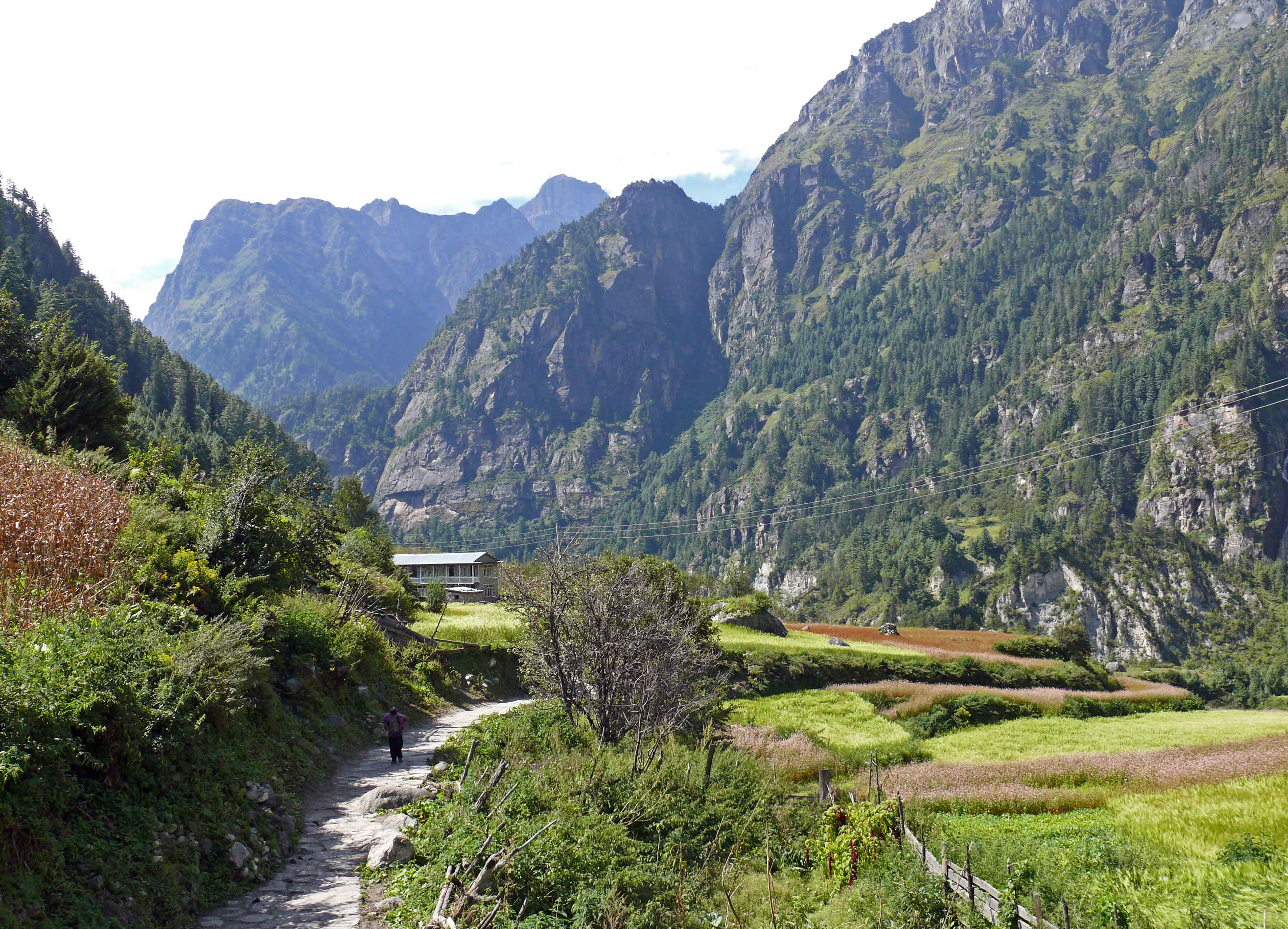 In the upper Manang-District